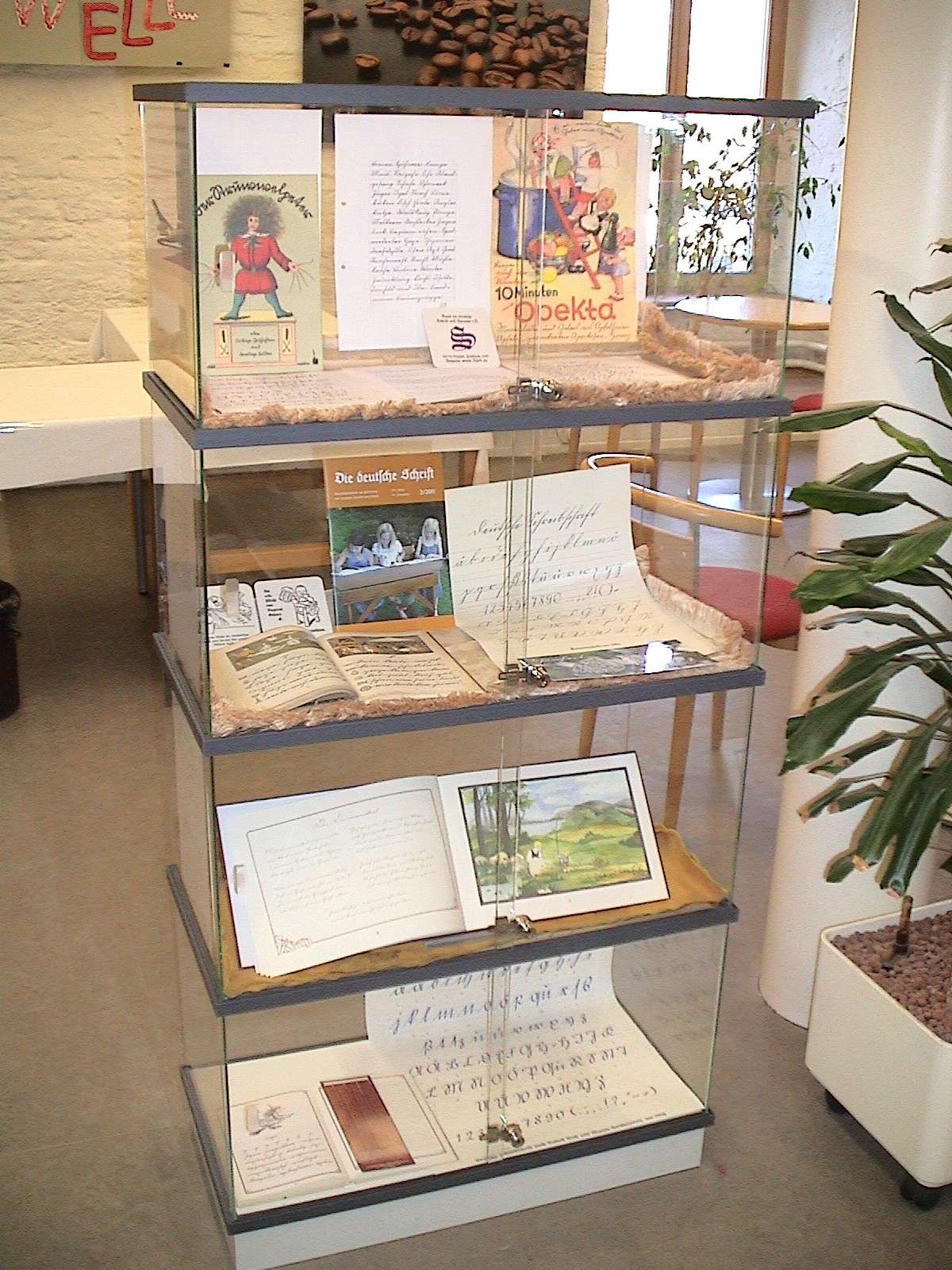 Display case with exhibits in German scripts, mostly Kurrent and Sütterlin. The photo was taken in the town library of Straubing, Bavaria, Germany. The town library is housed in Herzogsschloss, the ducal palace of Straubing.